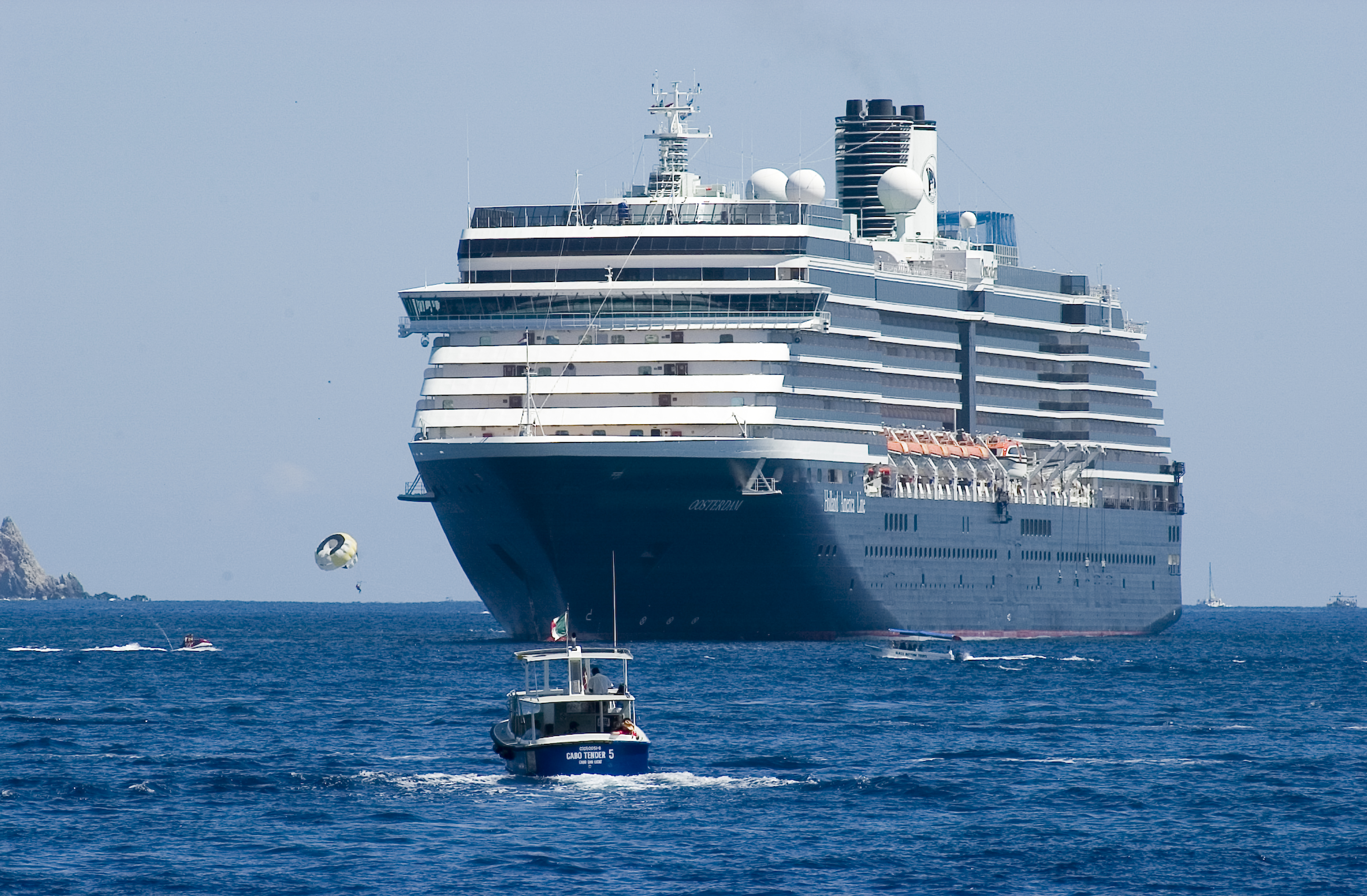 MS Oosterdam anchored in Cabo San Lucas.